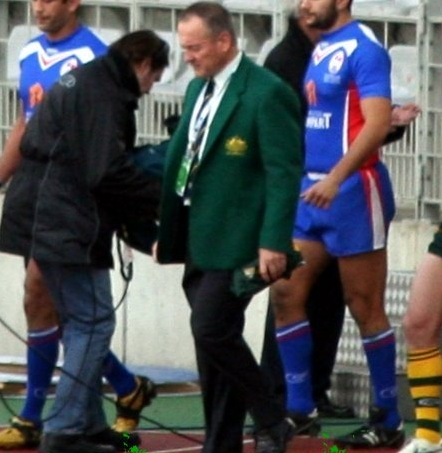 Tim Sheens